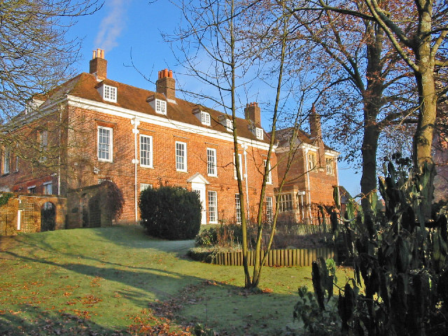 The Queens House Lyndhurst New Forest Hampshire. Rear view from the gardens.